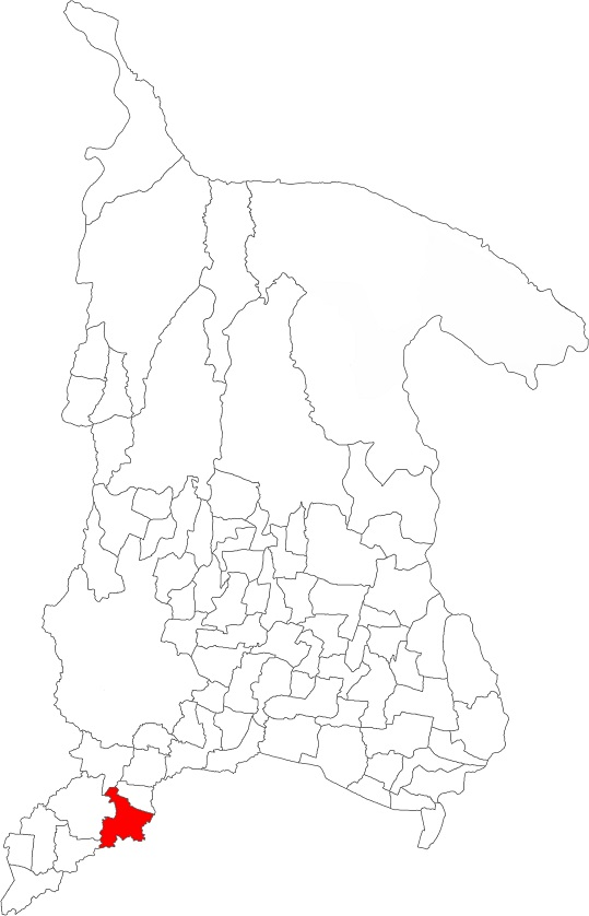 This is the map indicating the location of VDC Nagarain in Dhanusha district of Nepal.